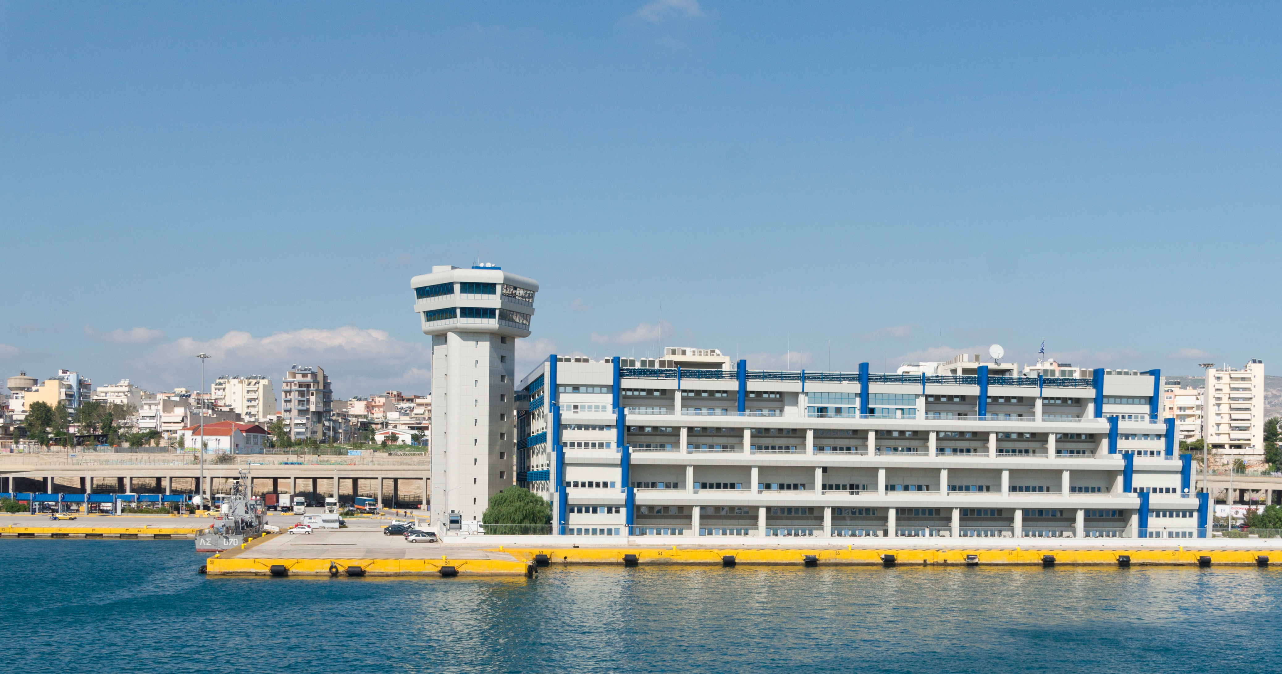 Building of the Hellenic Coast Guard, Ministry of Mercantile Marine, Piraeus, Greece.